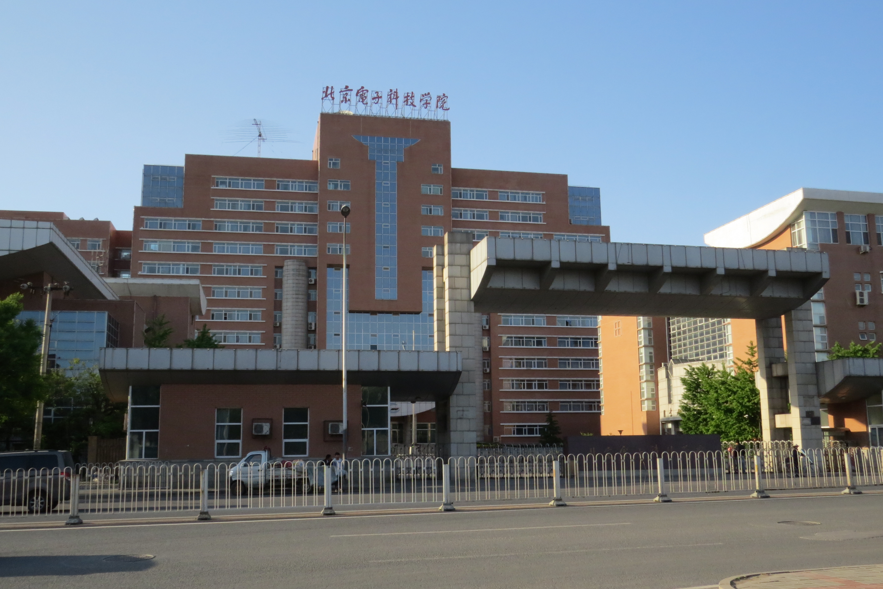 This university belongs to the General Office of the Communist Party of China.